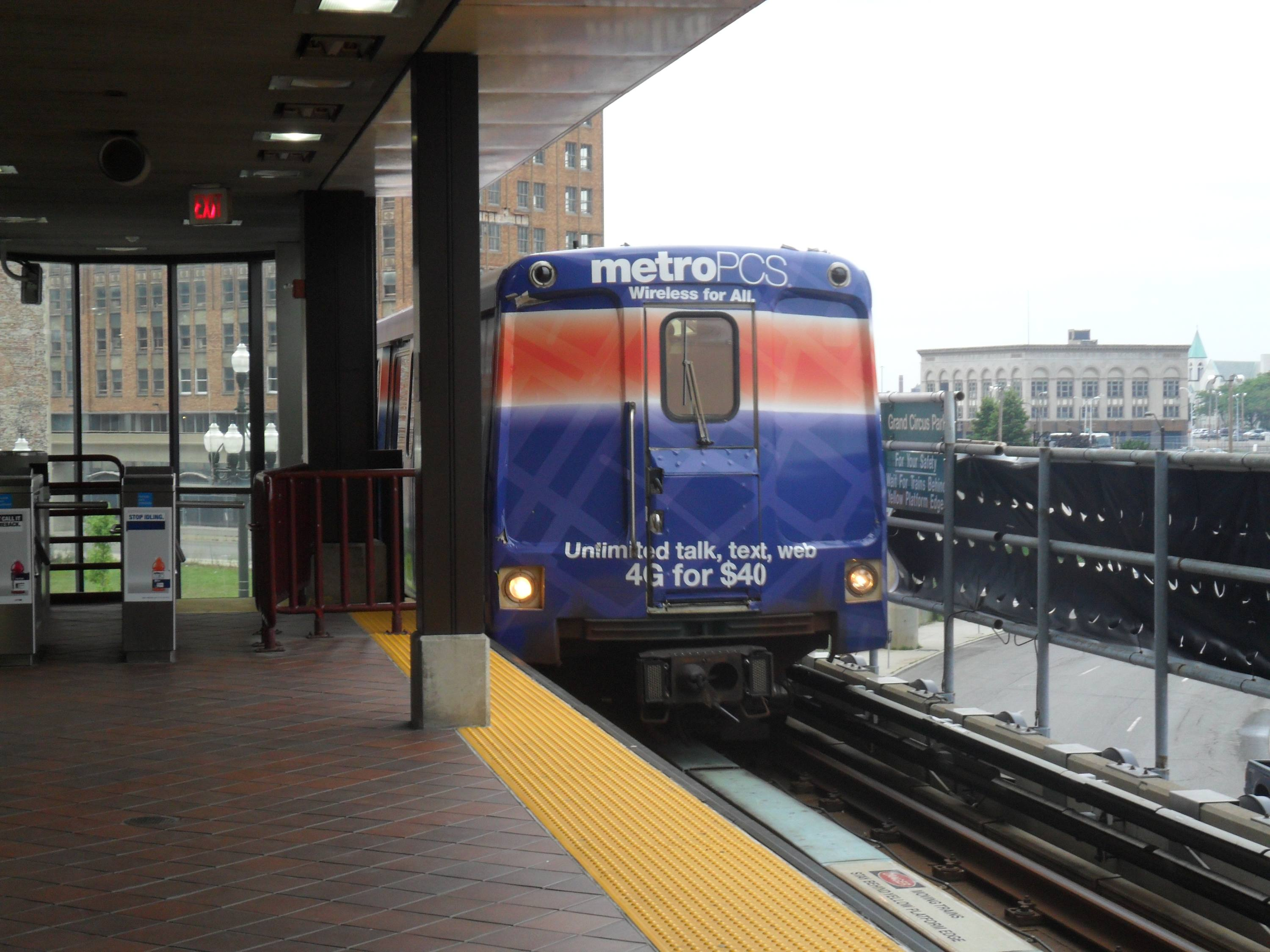 A Detroit People Mover train stopping at Grand Circus Park Station in the David Whitney Building, Midtown Detroit, Michigan.